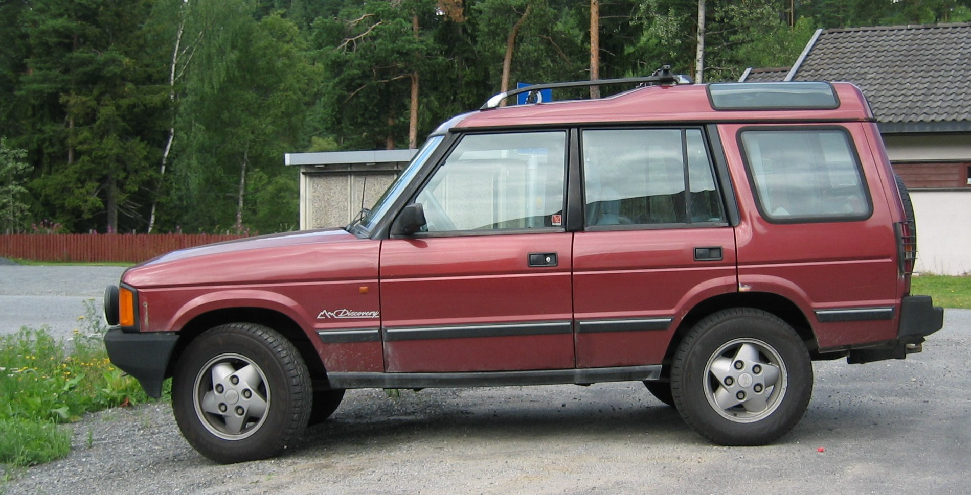 Land Rover Discovery Series I side view in Kongsberg, Norway on 2005-07-25.